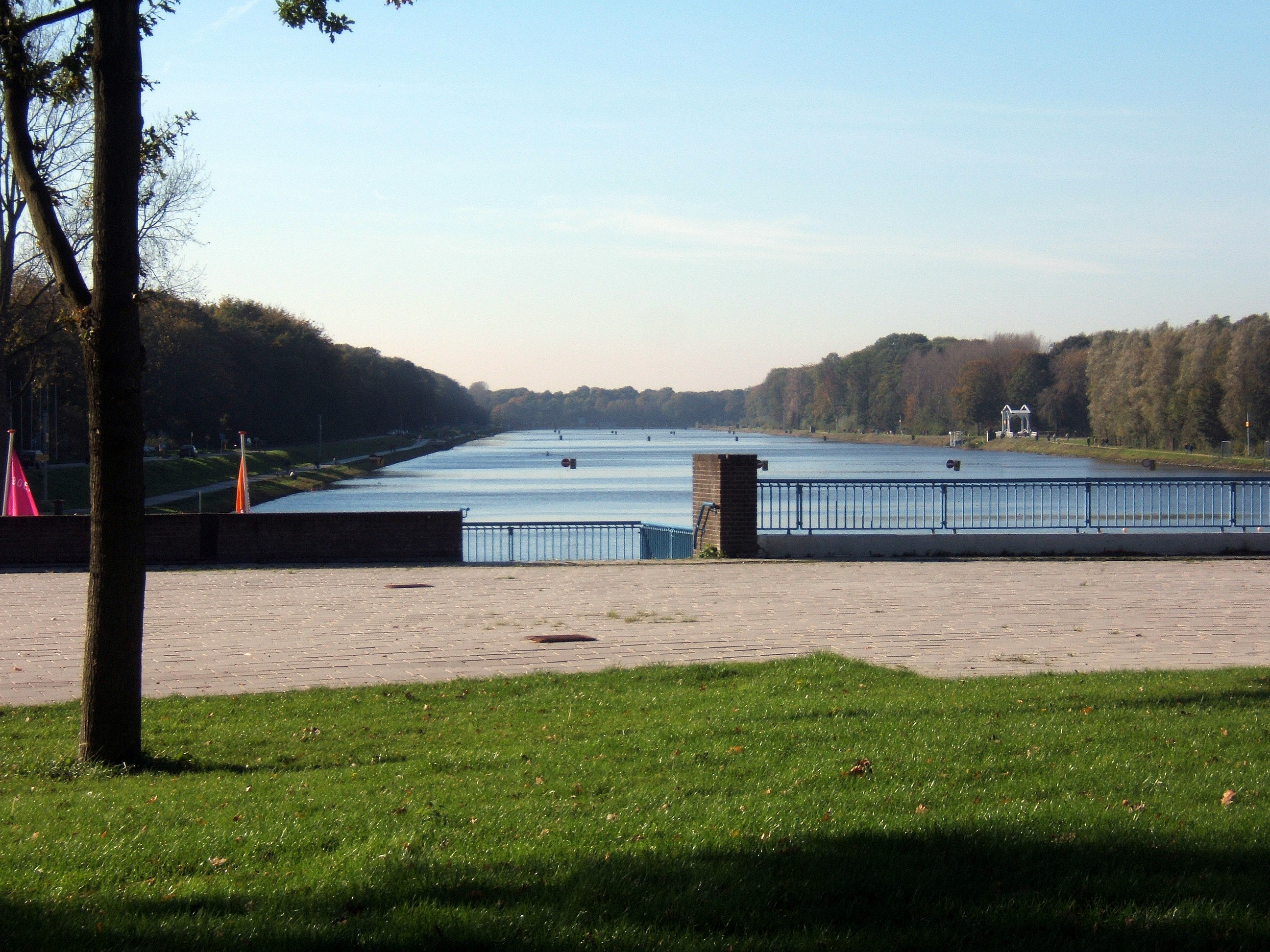 Own picture of the Bosbaan (a rowing course in Amsterdam), taken at October 27, 2005